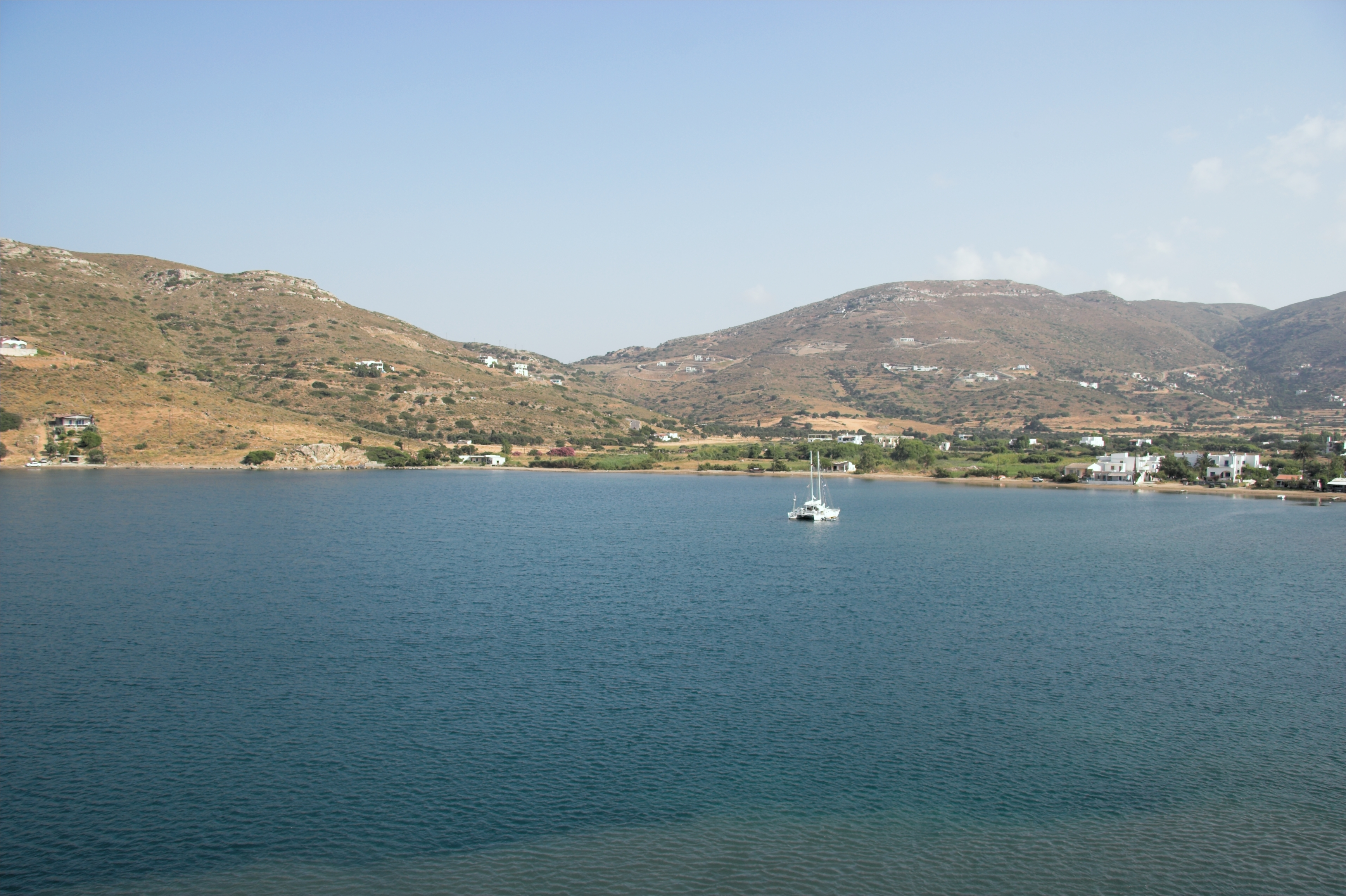 Bay on the outskirts of the village Gavrio, Andros.